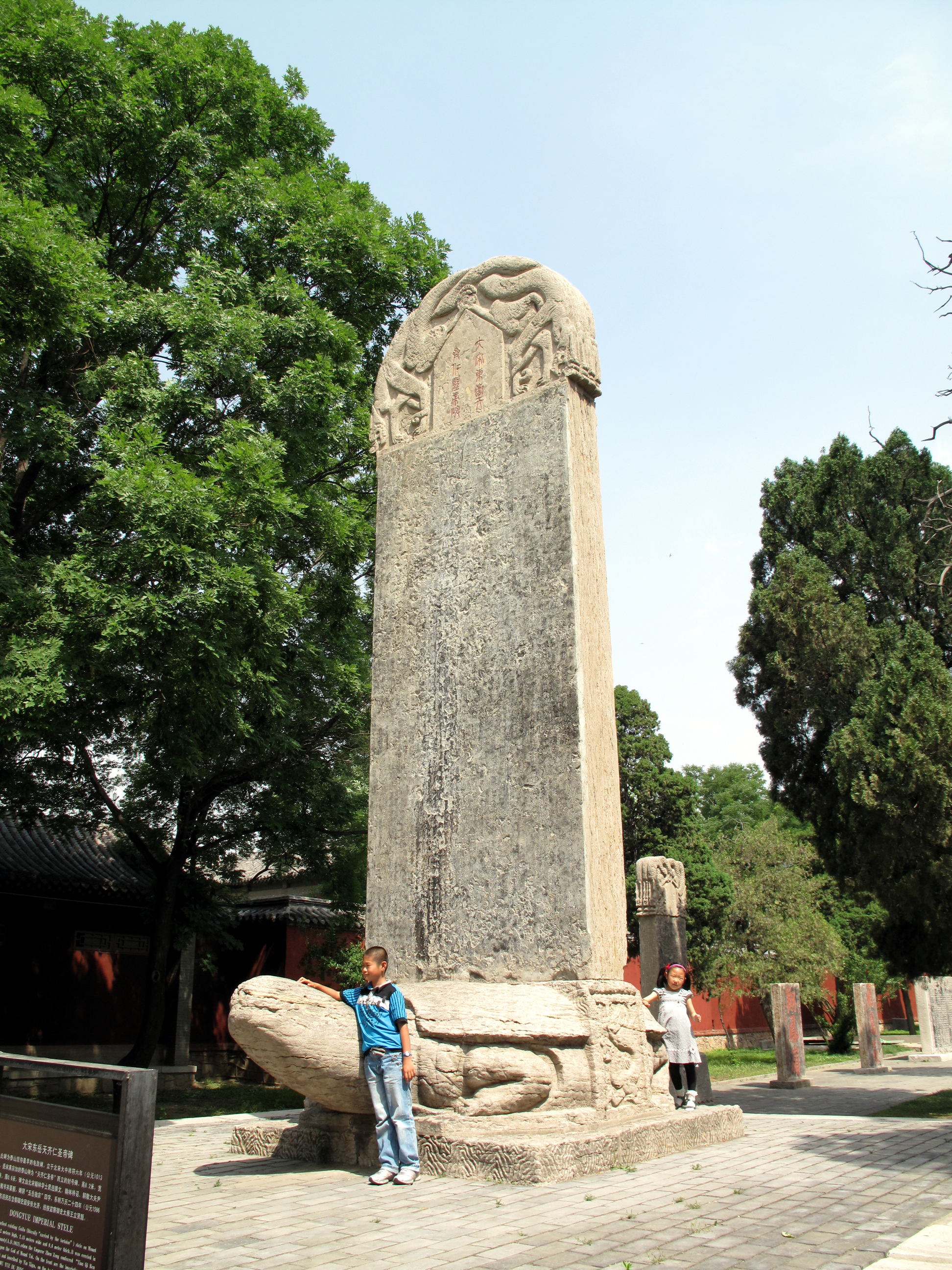 Dongyue Imperial Stele. Dai Miao, Mount Tai The stele was erected in 1013 AD, when the Song emperor conferred an honorary title upon the God of Mt. Tai. Additional inscriptions date from the Ming dynasty (1596).